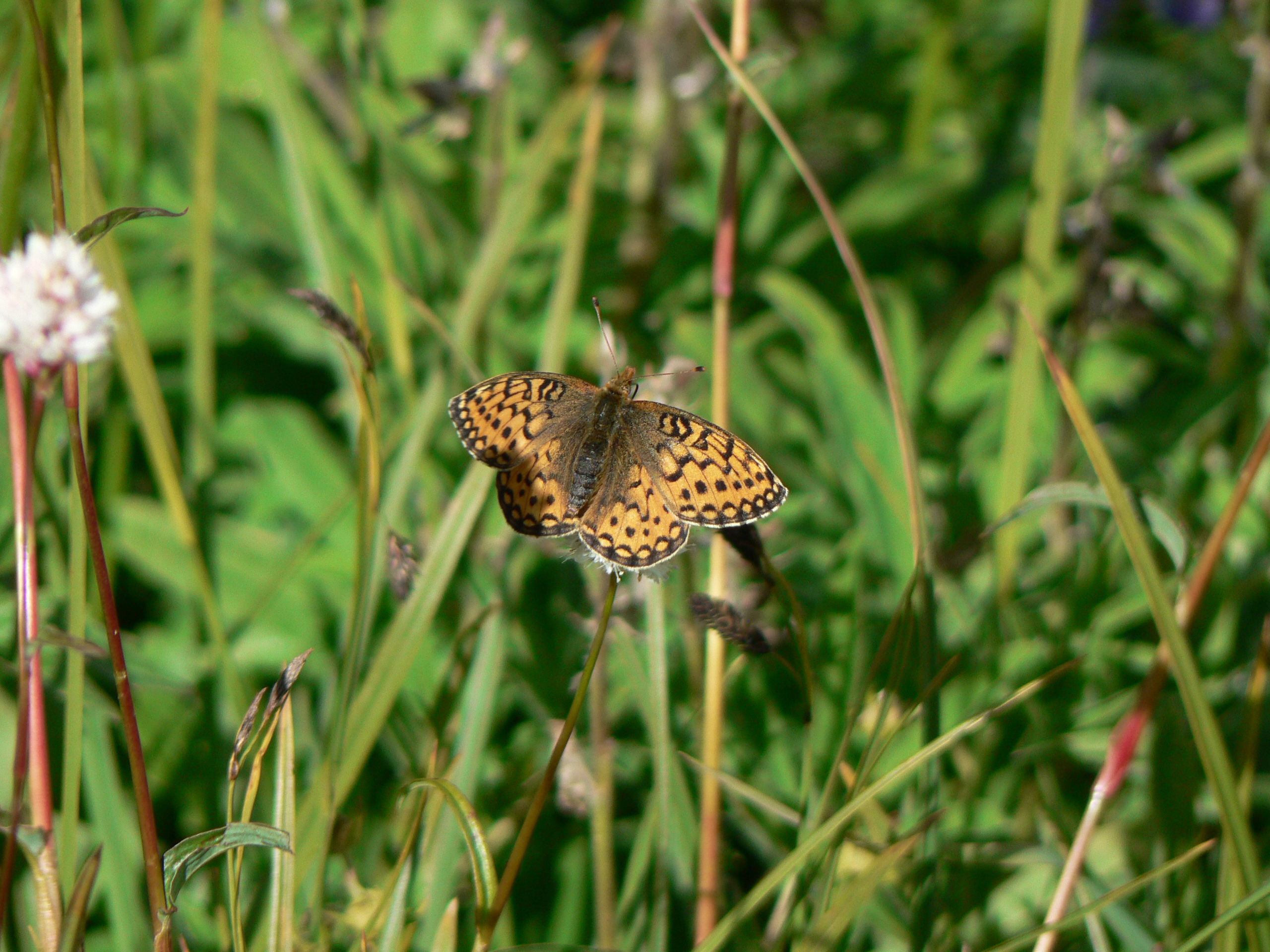 Mormon Fritillary